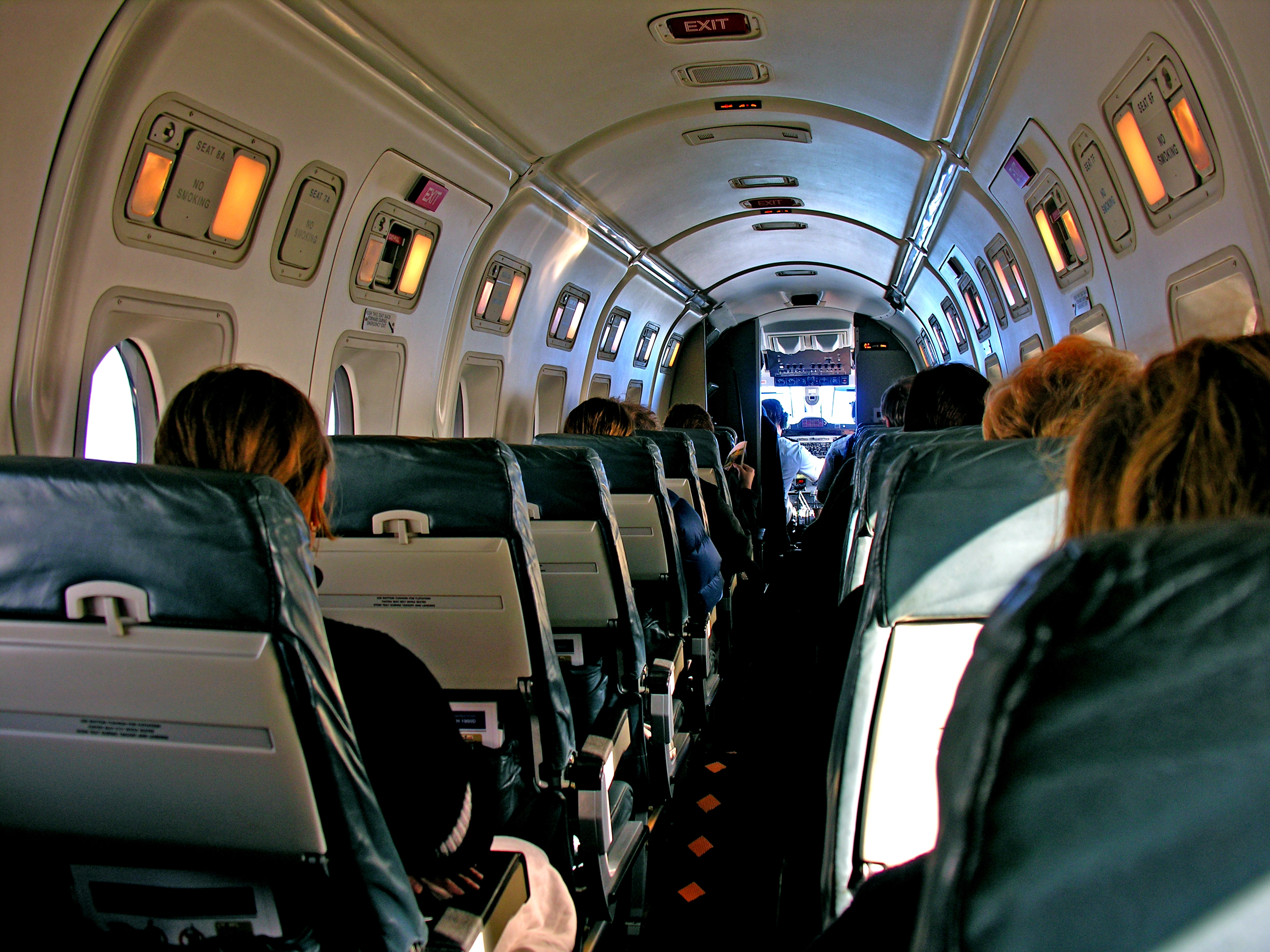 En route Blenheim to Christchurch